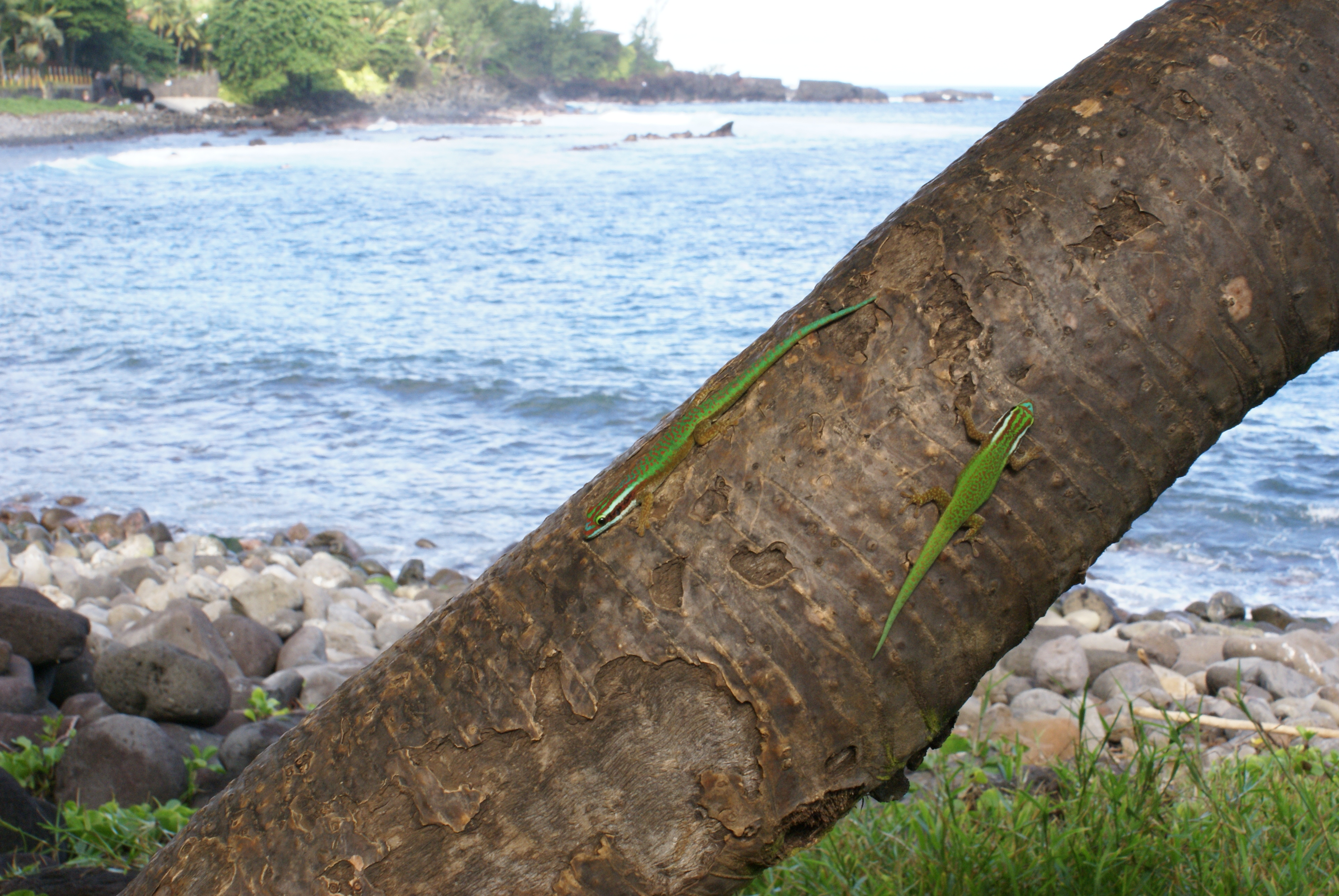 Phelsuma inexpectata in wild on Pandanus utilis along Manapany beach